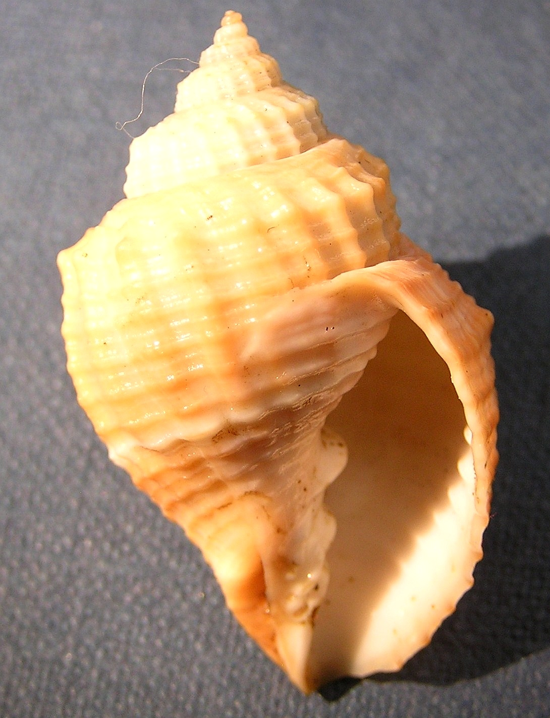 Cancellaria (Euclia) balboae Pilsbry, 1931 , Pacific Ocean, Panama